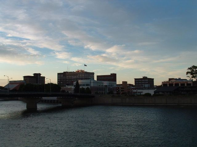 Web sized version of Waterloo Iowa downtown north (east) bank.SDMDVSDFS